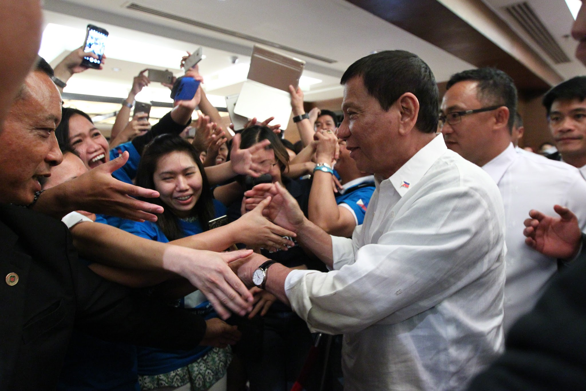 President Rodrigo Duterte is greeted by overseas Filipinos during his official visit to Vietnam on September 28. ACE MORANDANTE/PRESIDENTIAL PHOTO